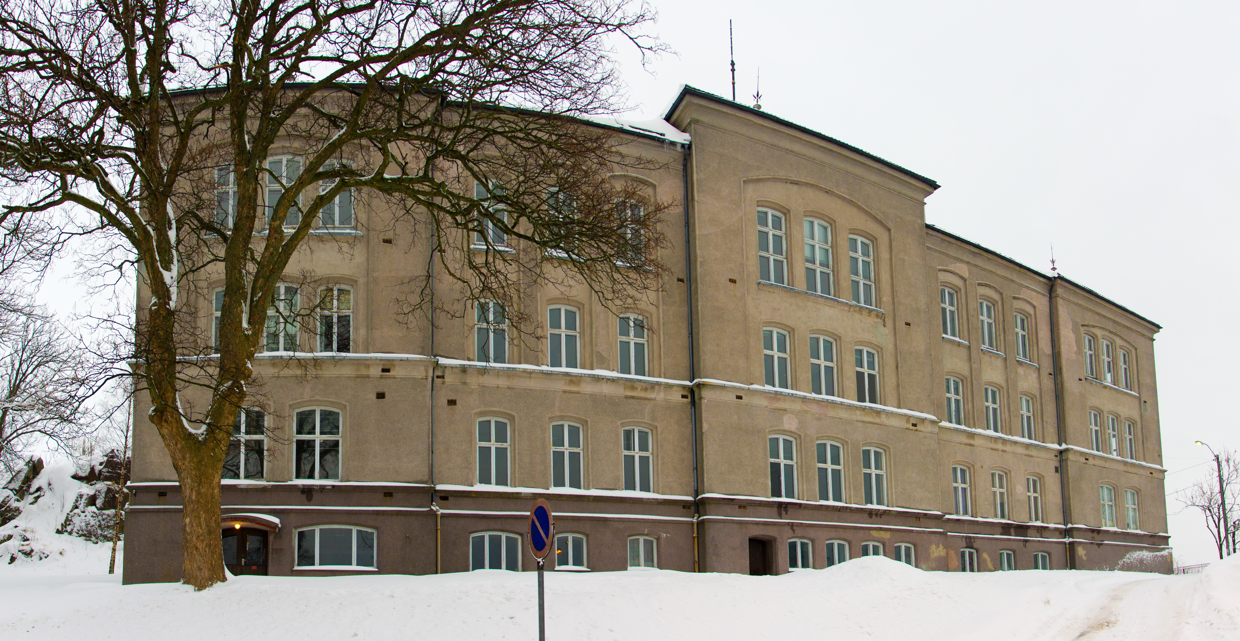 The Slottsfjell school built in 1884. A former school in Tønsberg, Norway.